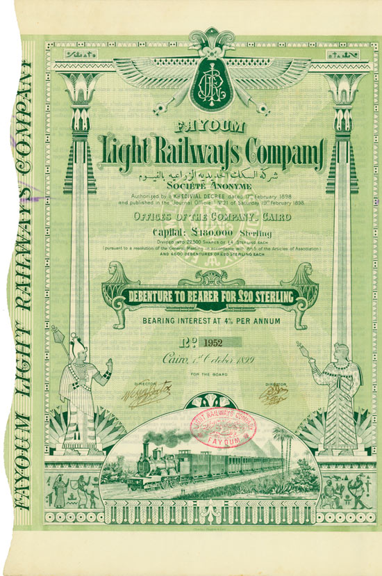 Historic stock exchange certificate. 1 October 1899, 4 % Debenture to Bearer for £20, #1952, 40.8 x 27.5 cm, green, rest of coupons, superb.